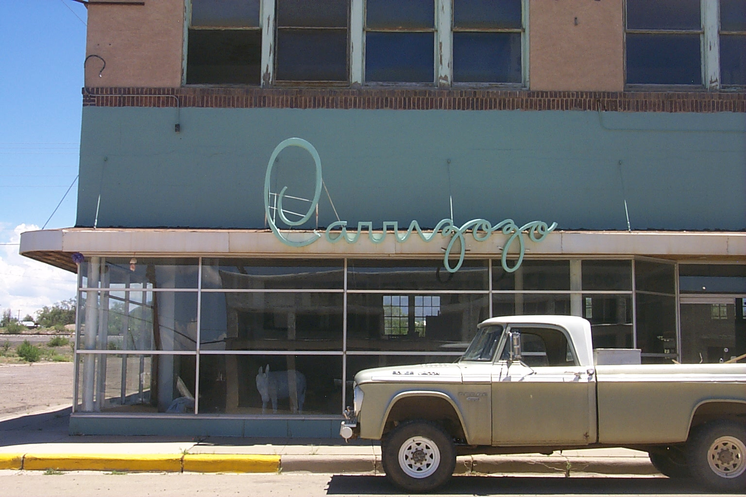 Photo by Janice Baer, 2006.